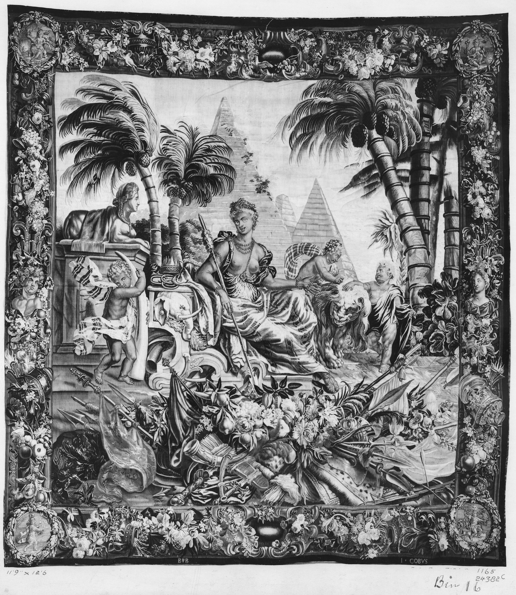 Tapestry Dimensions: H 9'3" x W 11'5". Tapestry Materials/Techniques: unknown. Culture: Flemish. Weaving Center: Brussels. Ownership History: French & Co. Inscriptions: City mark in lower guard, left of center. Inscriptions: Inscriptions in border medallions, at 4 corners (clockwise): ORIENT, OCCIDENT, MID . . . [SEP]TENTRION. Inscriptions: Woven signature in lower guard, right: I COBVS. Personification of Africa holding lance & pointing at lion (center, middle ground), elephant headpiece, sphinx on pedestal (L, middle ground), hunting panoply or pile of weapons with fruits & flowers (foreground), pyramids, palm trees (background). (BRD) floral festoons, urns, busts, cartouches; at 4 corners round medallions showing putto & inscriptions. This panel is part of a set of 4 tapestries, either woven by Jacob Van der Borght or Jan Cobus, who have signed tapestries in the set.